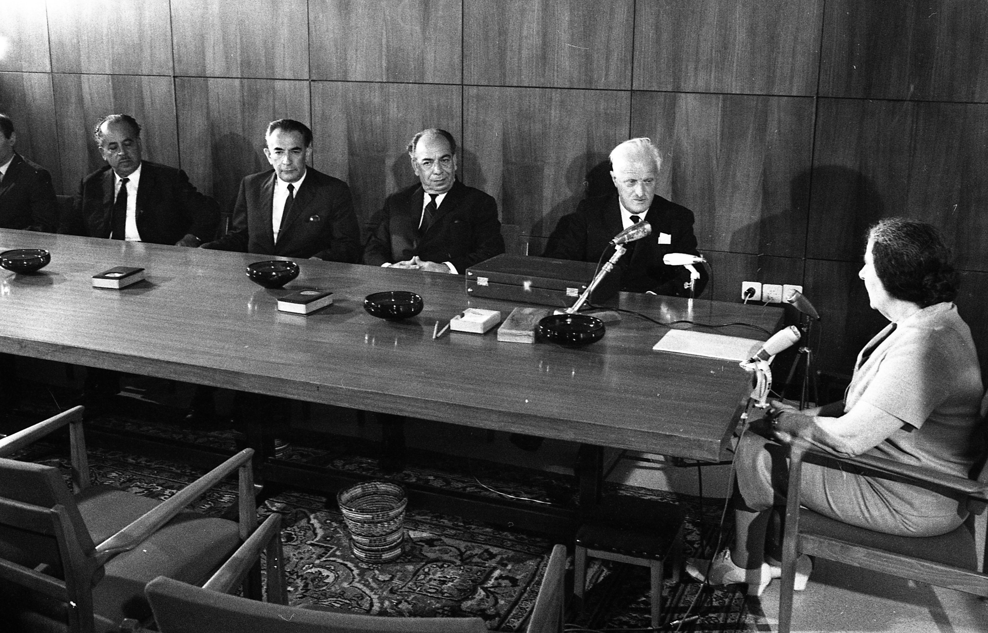 Al-Aqsa Mosque fire commission of Inquiry Submitting their report.